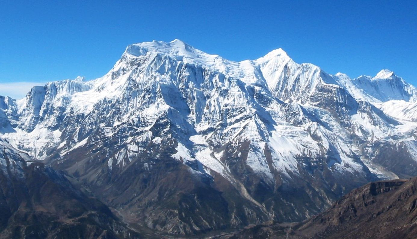 Annapurna III, Gangapurna (and Annapurna I on the very right) from northeast